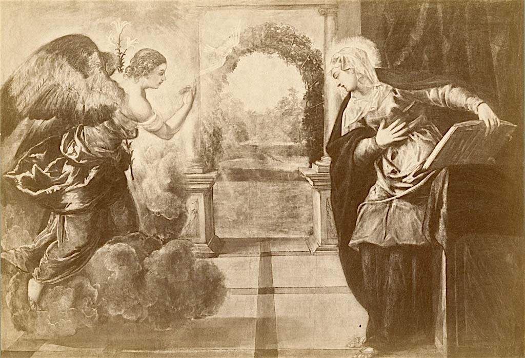 'The Annunciation', by Jacopo Tintoretto (c. 1578–1580), a painting possibly destroyed in the Friedrichshain flak tower fire in Berlin, at the end of the Second World War (May 1945). The painting belonged to the collections of the Kaiser-Friedrich-Museum, now the Bode-Museum of Berlin.